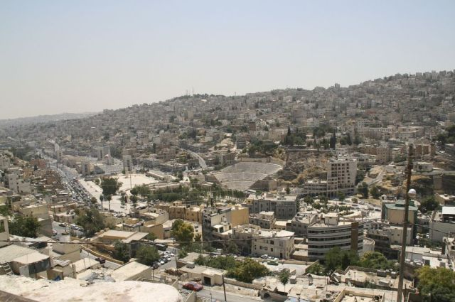 For more pictures and videos of Jordan, please visit here. Overview of Amman from the Citadel